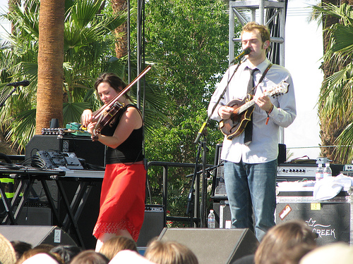 The band Nickel Creek at the Coachella Valley Music and Arts Festival, Indio, CA.